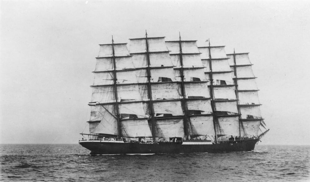 The ship „Preussen“ in full sail (Post card). Publisher: John Oxley Library, State Library of Queensland Description: Digital format: image/jpeg ; Original format: copy print : b&w Identifier: Image number: 31335